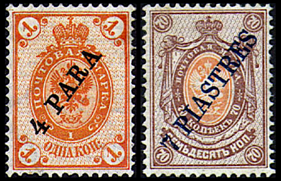 Postage stamps of Russian empire, P.O. in Levant, 4 paras and 7 piastres, 1900-1903, Scott#27 and 36